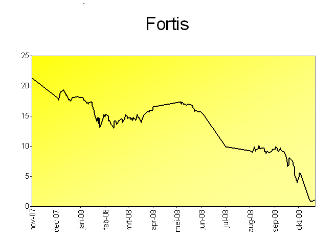 Fortis shares during creditcrisis